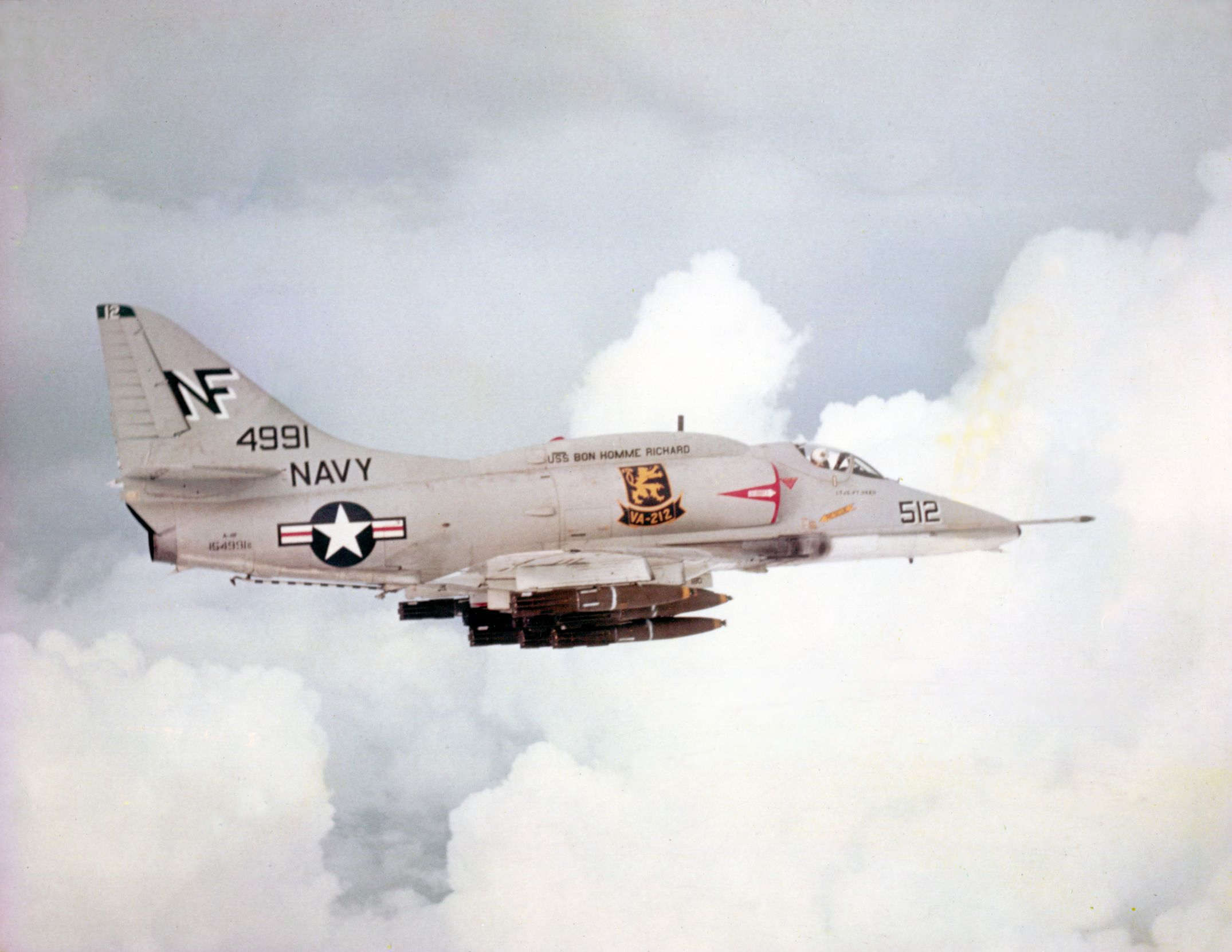 A U.S. Navy Douglas A-4F Skyhawk (BuNo 154991) of Attack Squadron VA-212 "Rampant Raiders" in flight during a mission over North Vietnam, in the summer of 1968. VA-212 was assigned to Carrier Air Wing 5 (CVW-5) aboard the aircraft carrier USS Bon Homme Richard (CVA-31) for a deployment to Vietnam from 27 January to 10 October 1968. The A-4F 154991 was finally retired to the AMARC as 3A0767 on 7 April 1994.